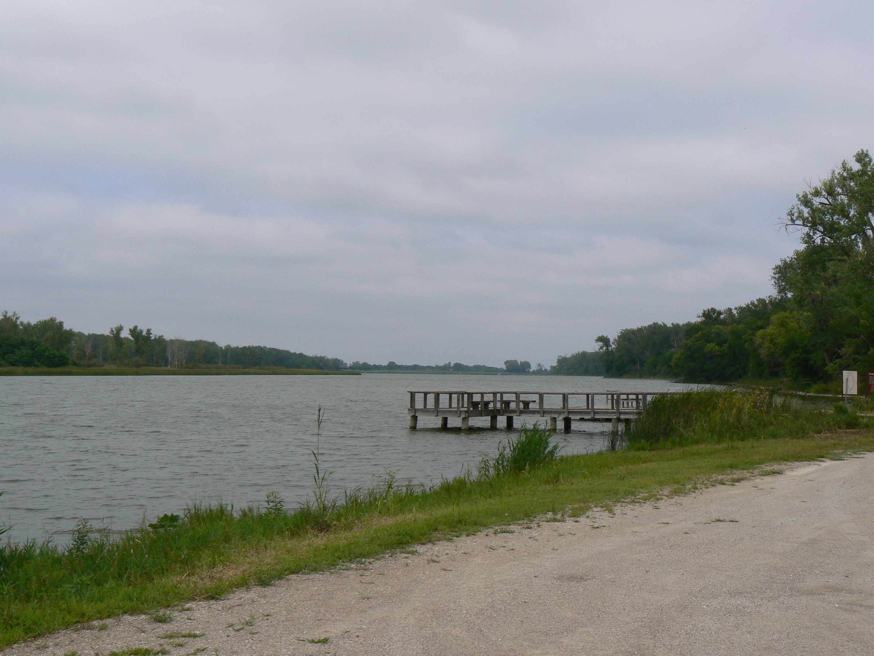 Desoto Lake is an oxbow lake which was once part of the Missouri River. Floods and rechannelization of the river cut a large bend out of the river, creating the lake. The lake is in DeSoto National Wildlife Refuge, located in the U.S. states of Iowa and Nebraska.